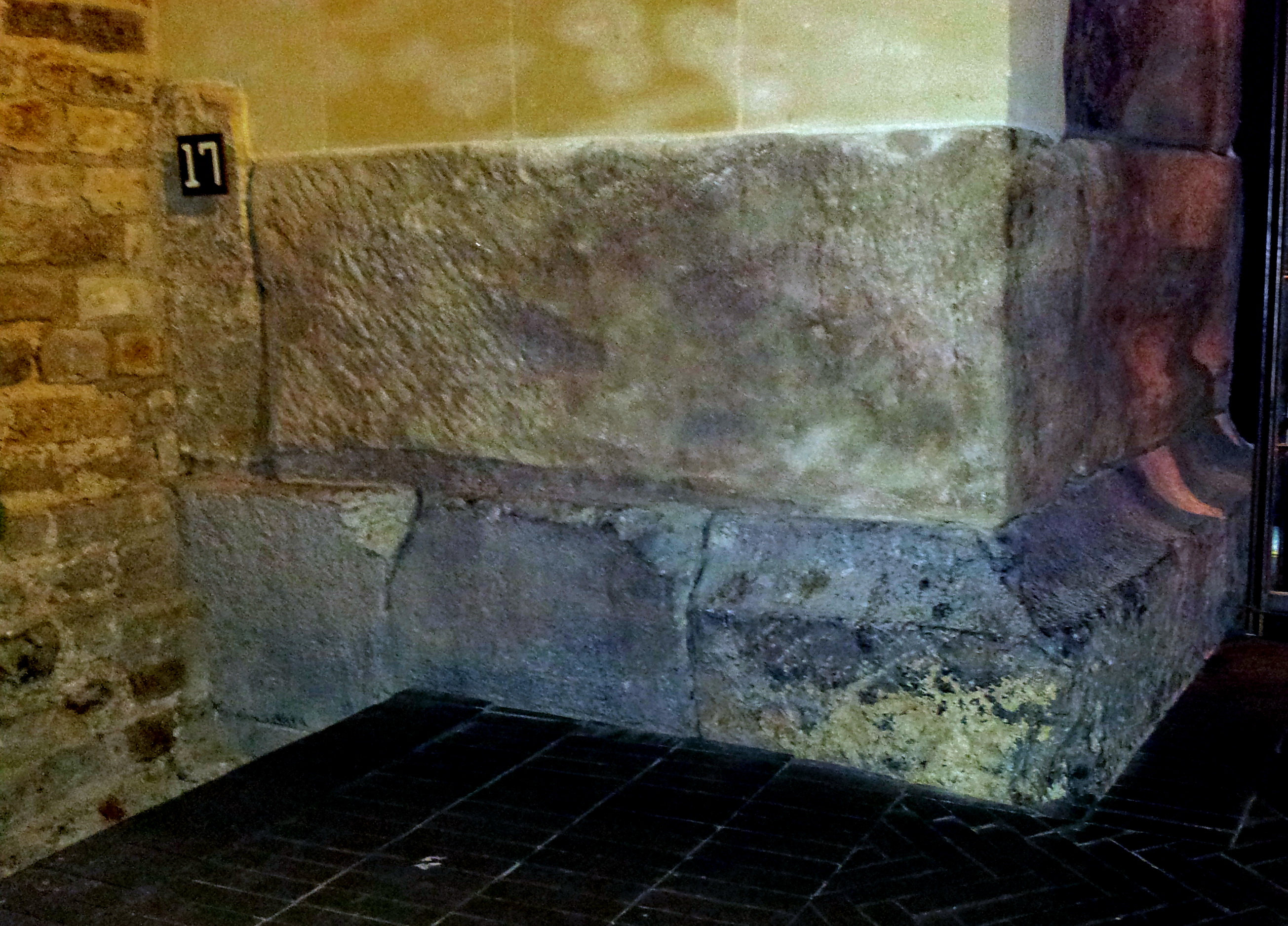 Museumkelder Derlon, Maastricht, the Netherlands. View from the southeast of the western gate of the 4th-century Roman castrum.